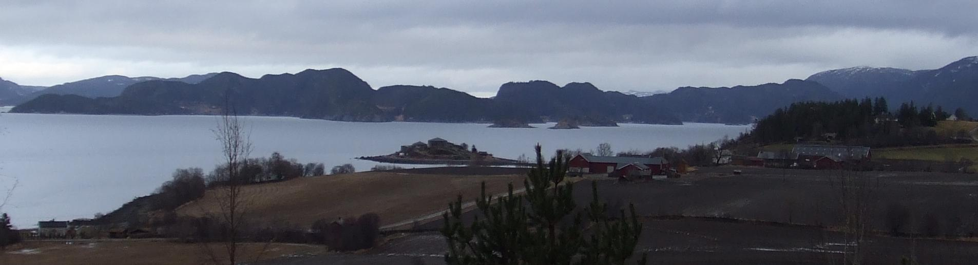 Åsenfjord in Nord-Trøndelag (Norway) seen from the northern part of Skatval in Stjørdal municipality. Steinvikholm Castle in centre.